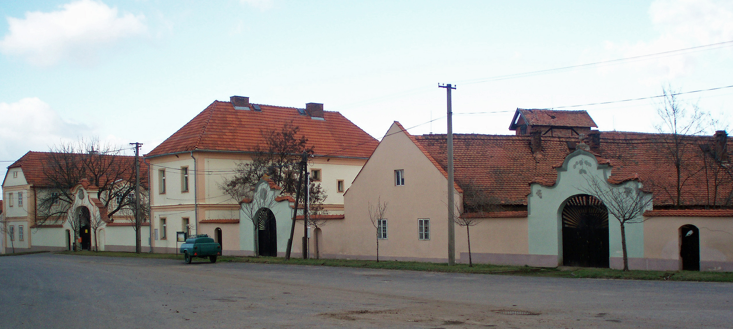 Village square in Stekník